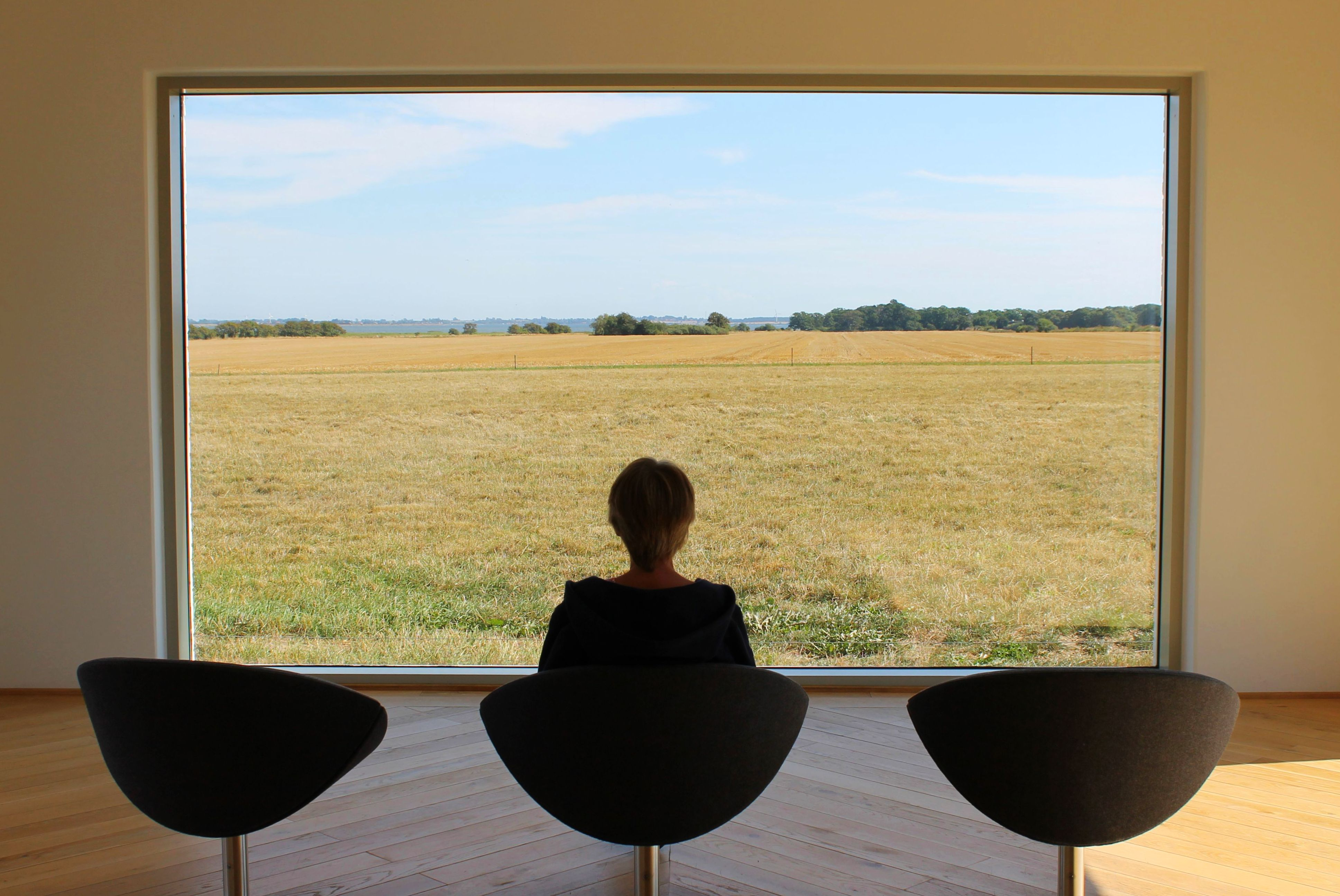 Panorama window, east side of the Fuglsang Kunstmuseum